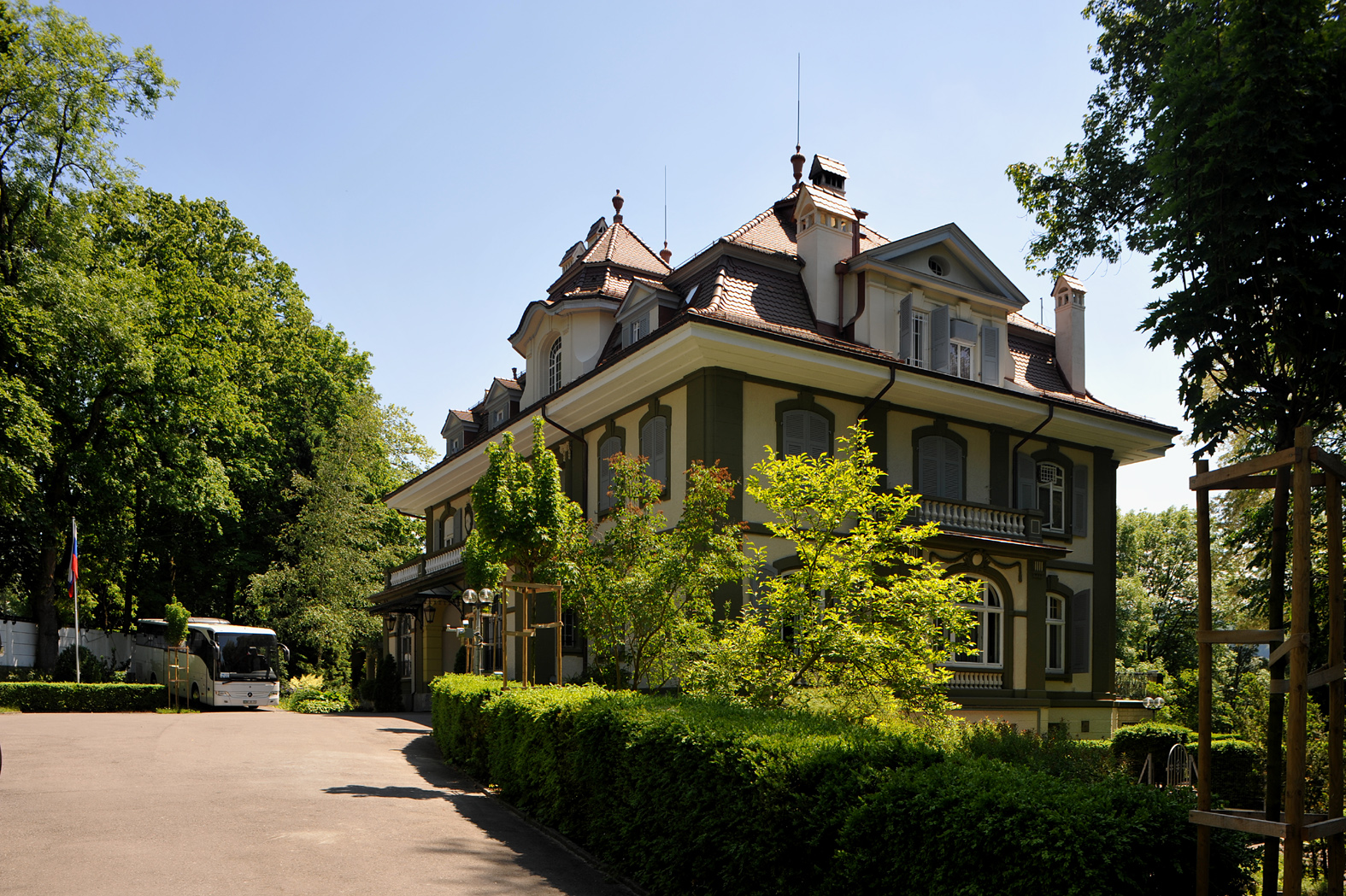 Russian embassy; Berne, Switzerland.